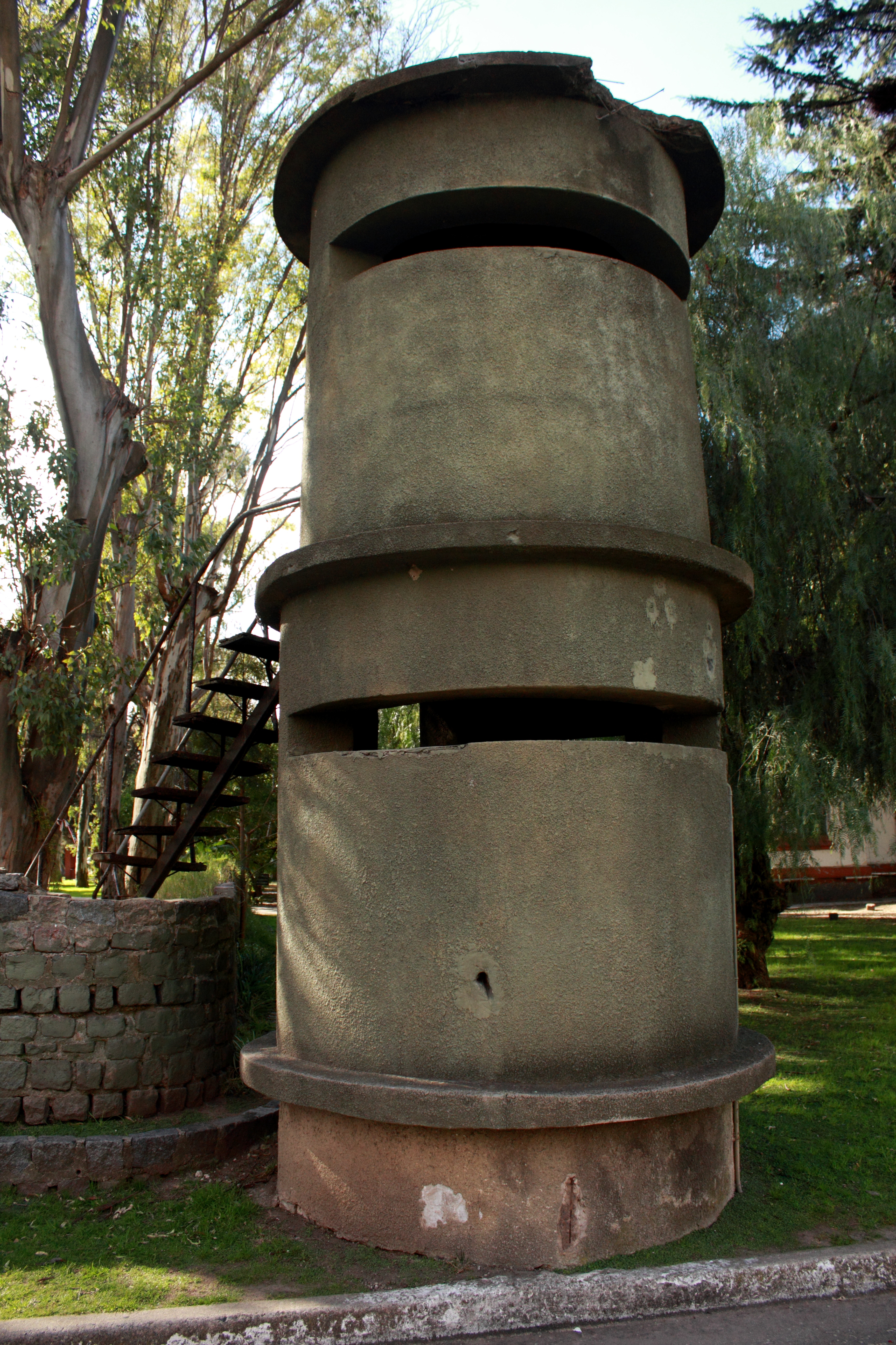 Former sentry box at the ESMA, the largest of the over 300 detainment camps operated by the last Argentine dictatorship in the late 1970s.